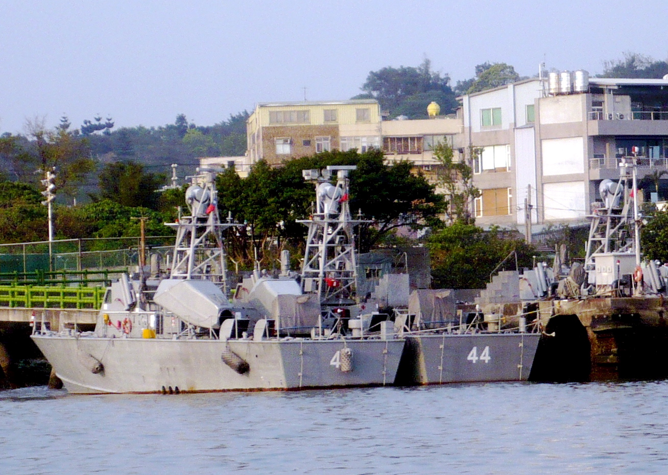 Hai Ou [Dvora] class missile boats of the ROC (Taiwan) Navy at Danshuei.